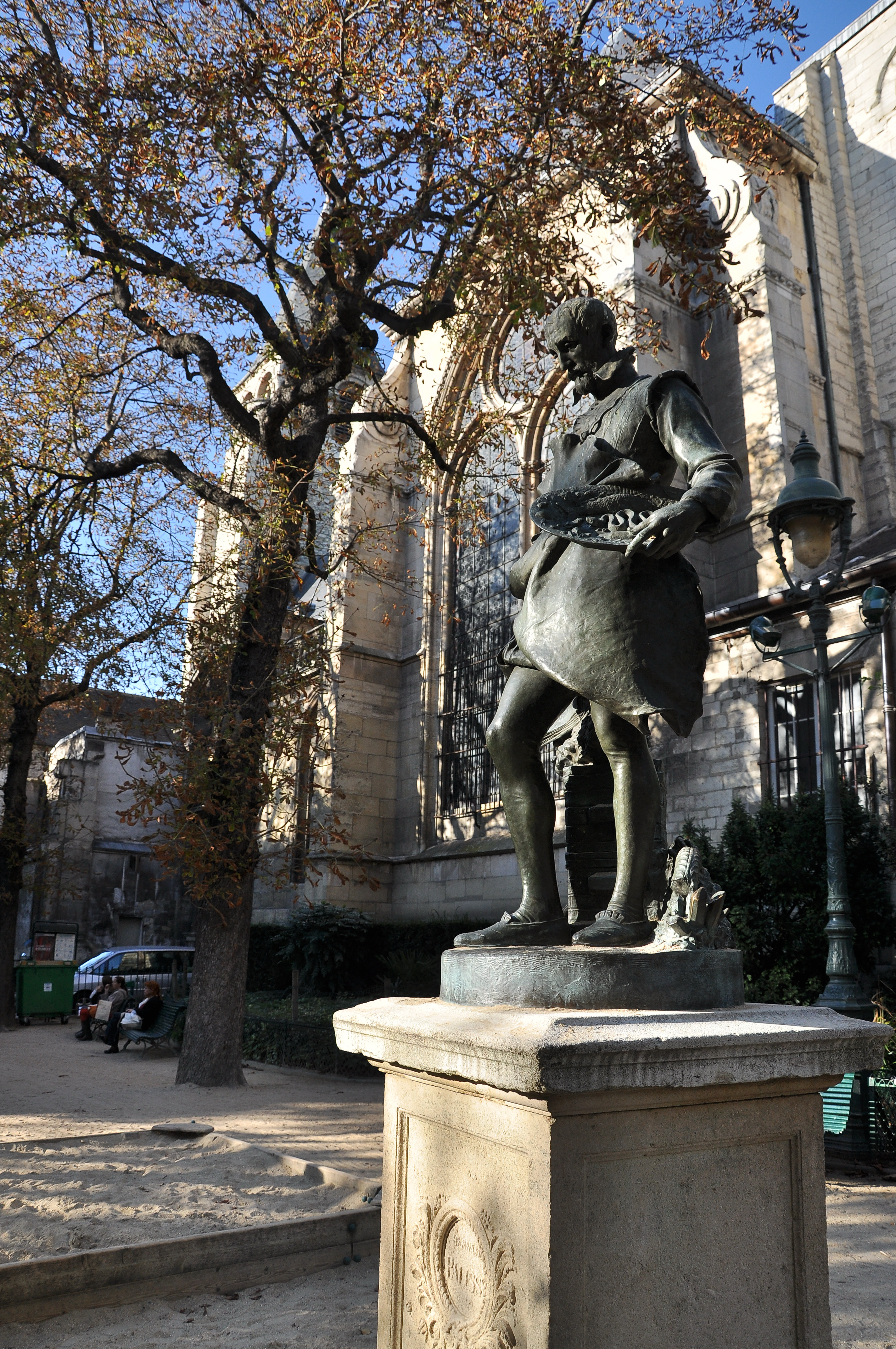 Bronze statue of Bernard Palissy work of the sculptor Louis-Ernest Barrias (1851-1905) installed in Square Félix-Desruelles in the 6th arrondissement of Paris, France.